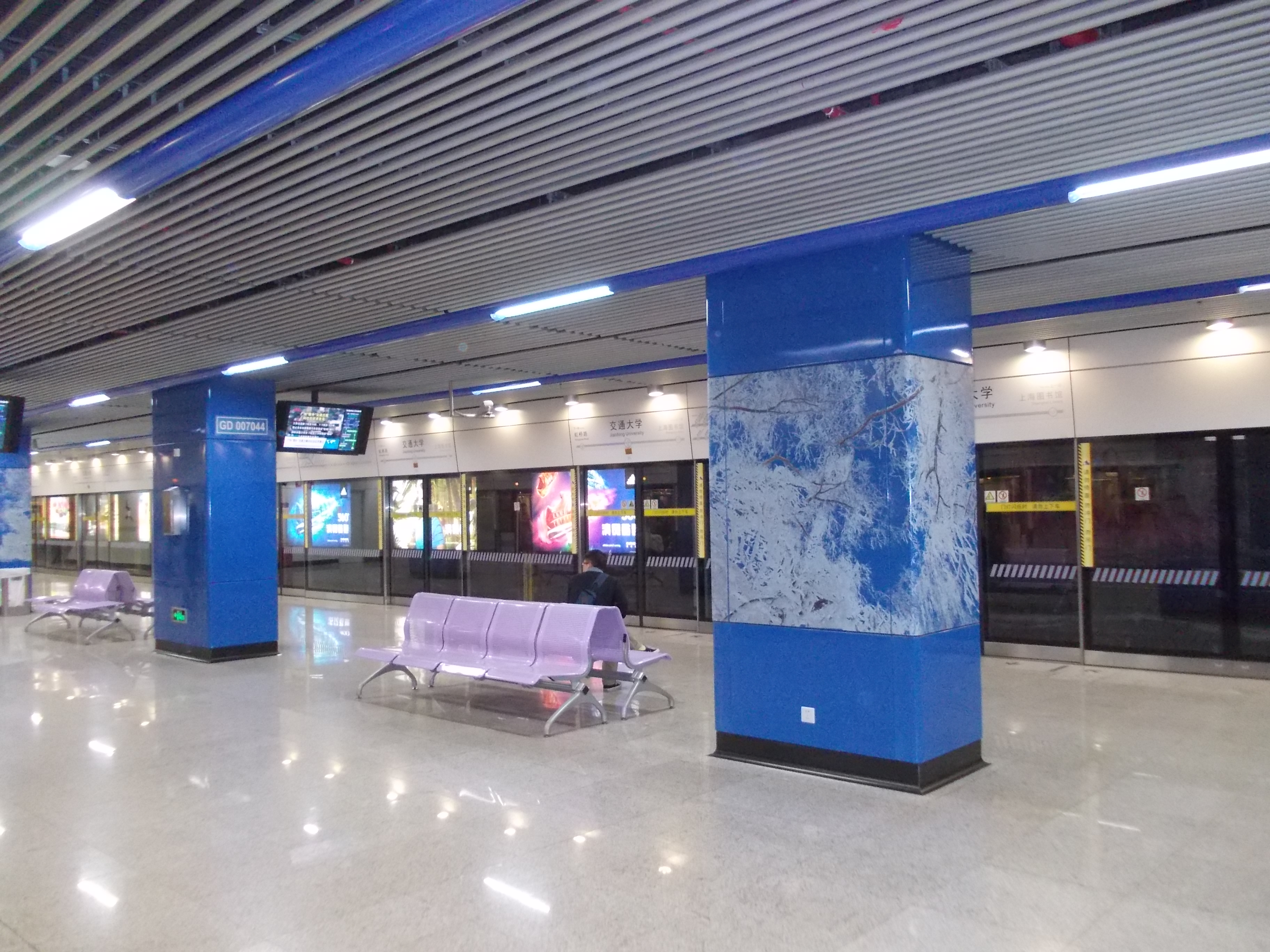 Shanghai Metro - Line 10 - Jiaotong University